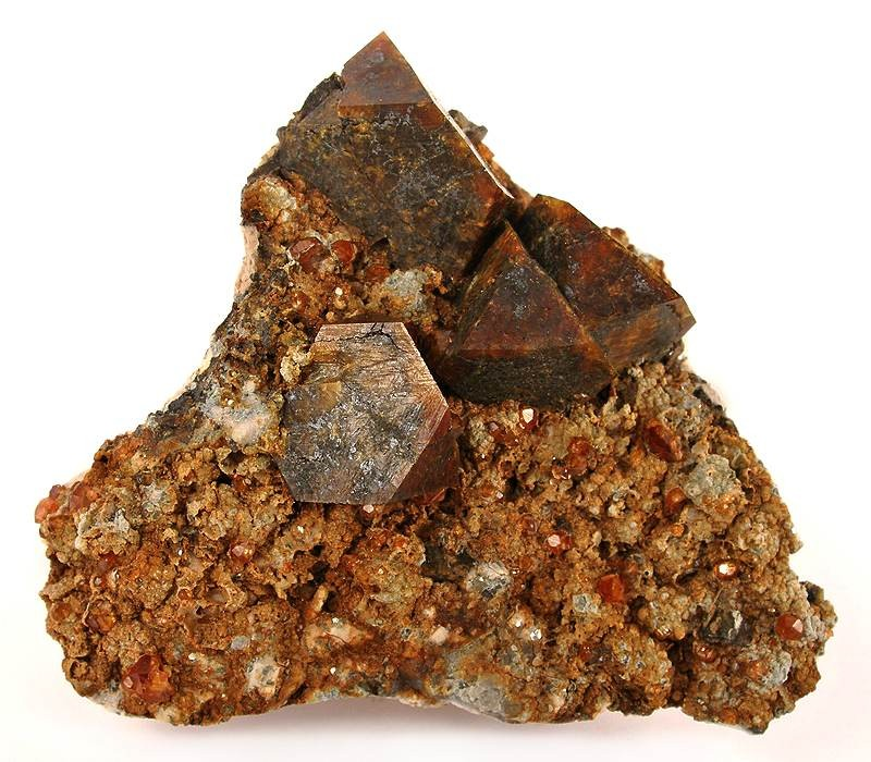 Helvite Locality: Wushan Spessartine Mine, Tongbei, Yunxiao County, Zhangzhou Prefecture, Fujian Province, China (Locality at ) Size: 8.7 x 7.7 x 3.6 cm. This superb helvite specimen has one dominant crystal measuring 2.4 cm, end to end. It appears to be complete, though there is a small growth asymmetry on the rear termination of that one. The other crystals are 1.6-1.7 cm. The large beveled faces are more lustrous than the side faces. Spessartine garnets on the matrix make for a nice accent, as well.